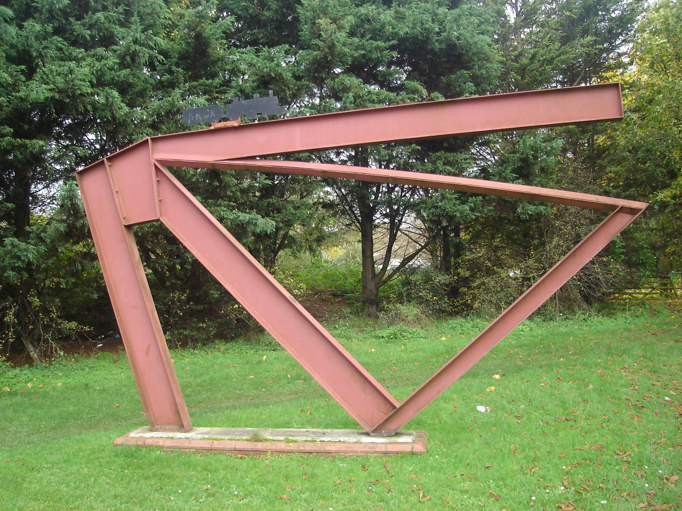 Girder Structure is located at the St Crispins roundabout close to the Norwich trailhead of the Marriotts Way long distance path. The work is by artist Peter Hide and dates from 1978. On closer inspection a model locomotive sits on top of the sculpture.